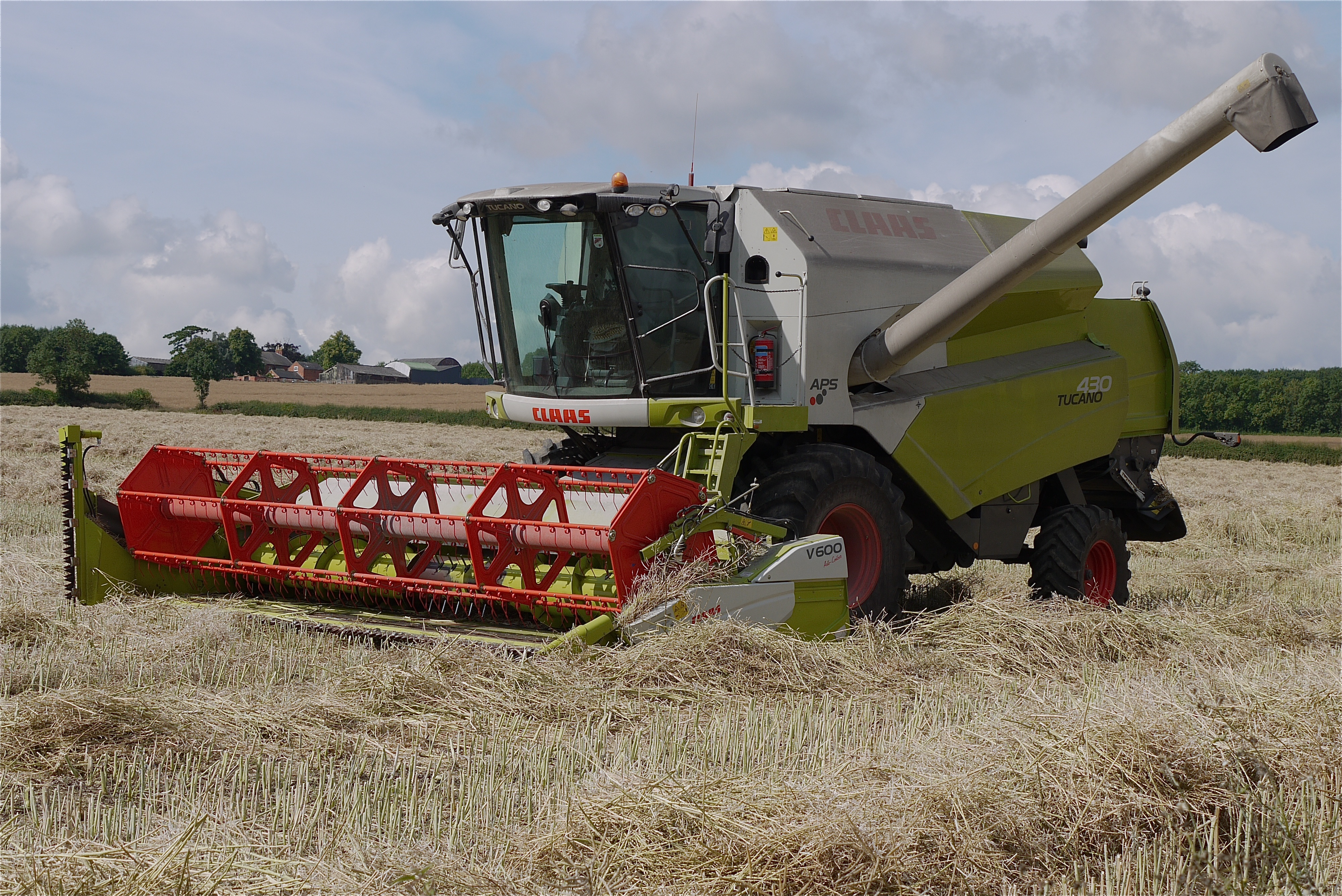 A Claas Tucano 430 combine harvester with a Claas V 600 header (6 m cutting width) on a field somewhere in England, UK